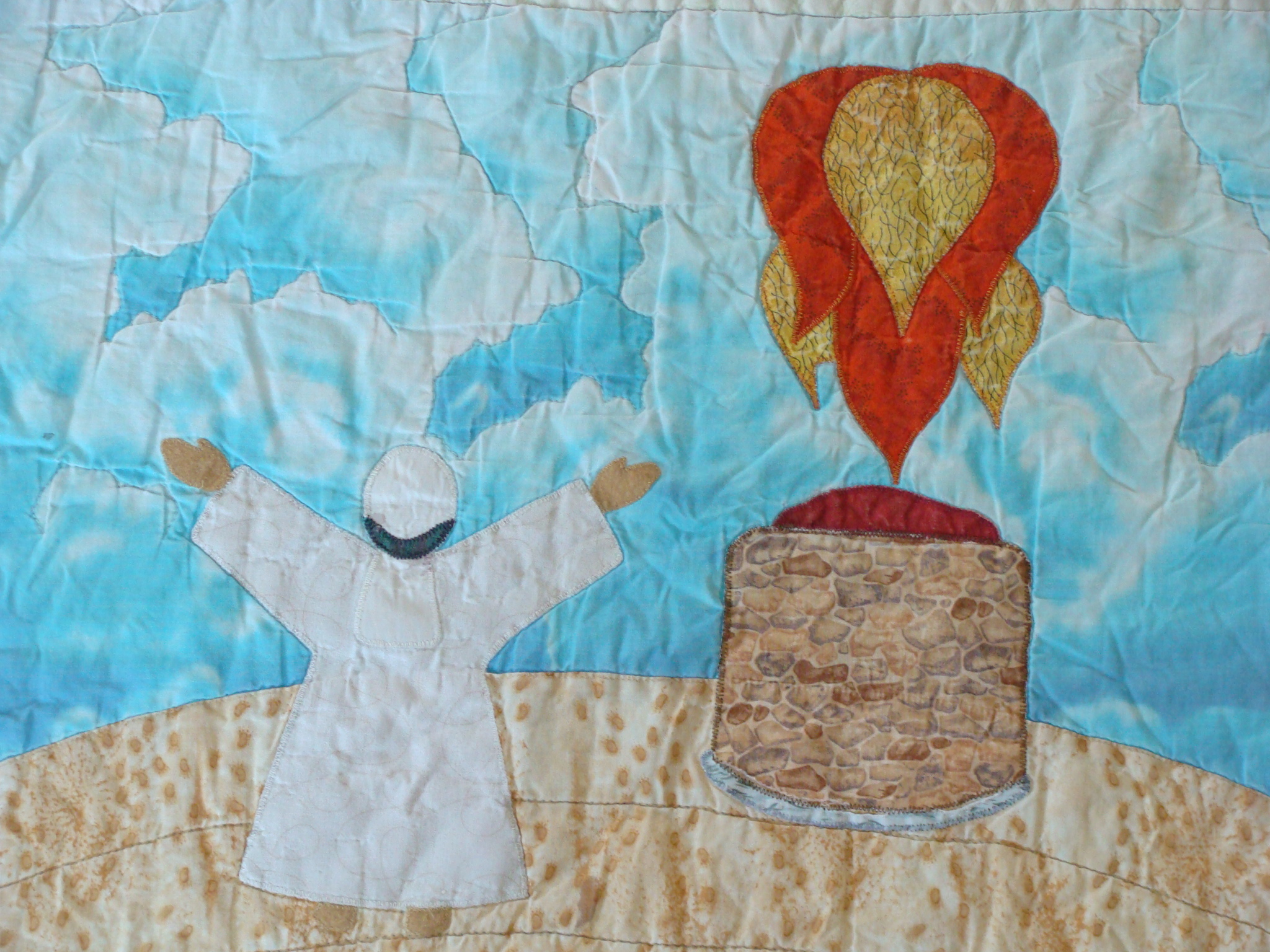 Yahweh sends fire from heaven to consume Elijah's sacrifice. (1 Kings 18)